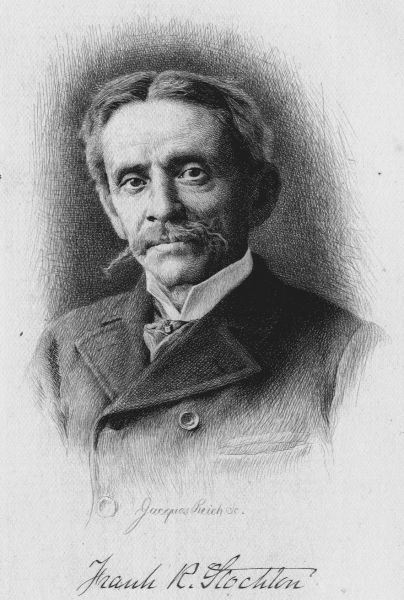 Frank R. Stockton, from an illustration in the 1903 publication of The Captain's Toll-Gate. From Project Gutenberg eText 13356